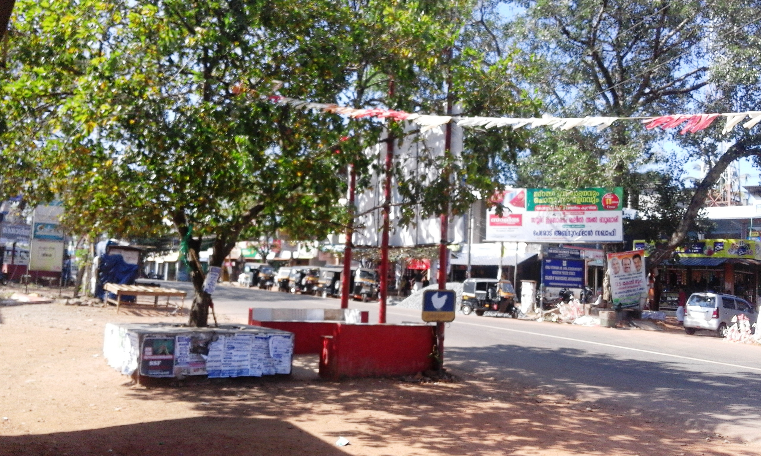 Kottappadam, Mundur, Palakkad District, South Malabar Region, Kerala State, India.